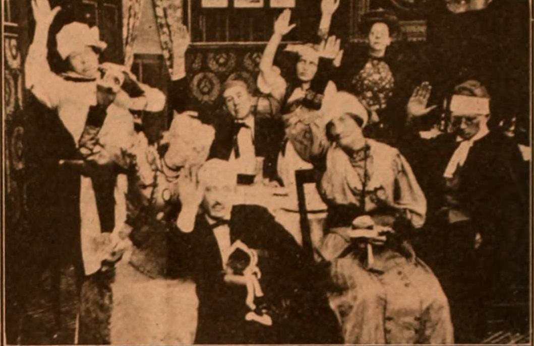 A film still from Home Made Mince Pie by the Thanhouser Company.